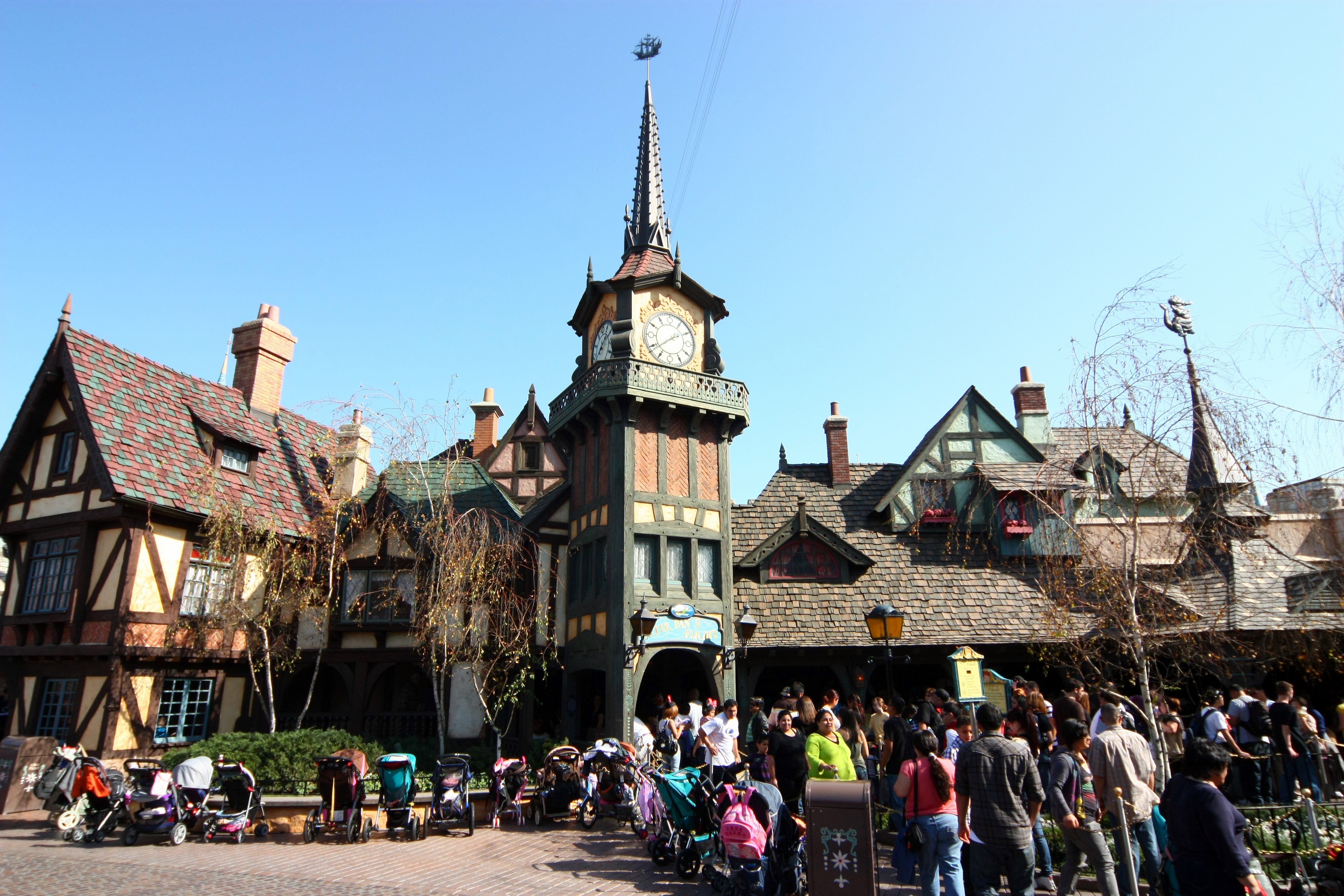 The exterior facade of the Peter Pan ride at Disneyland Park, in Anaheim